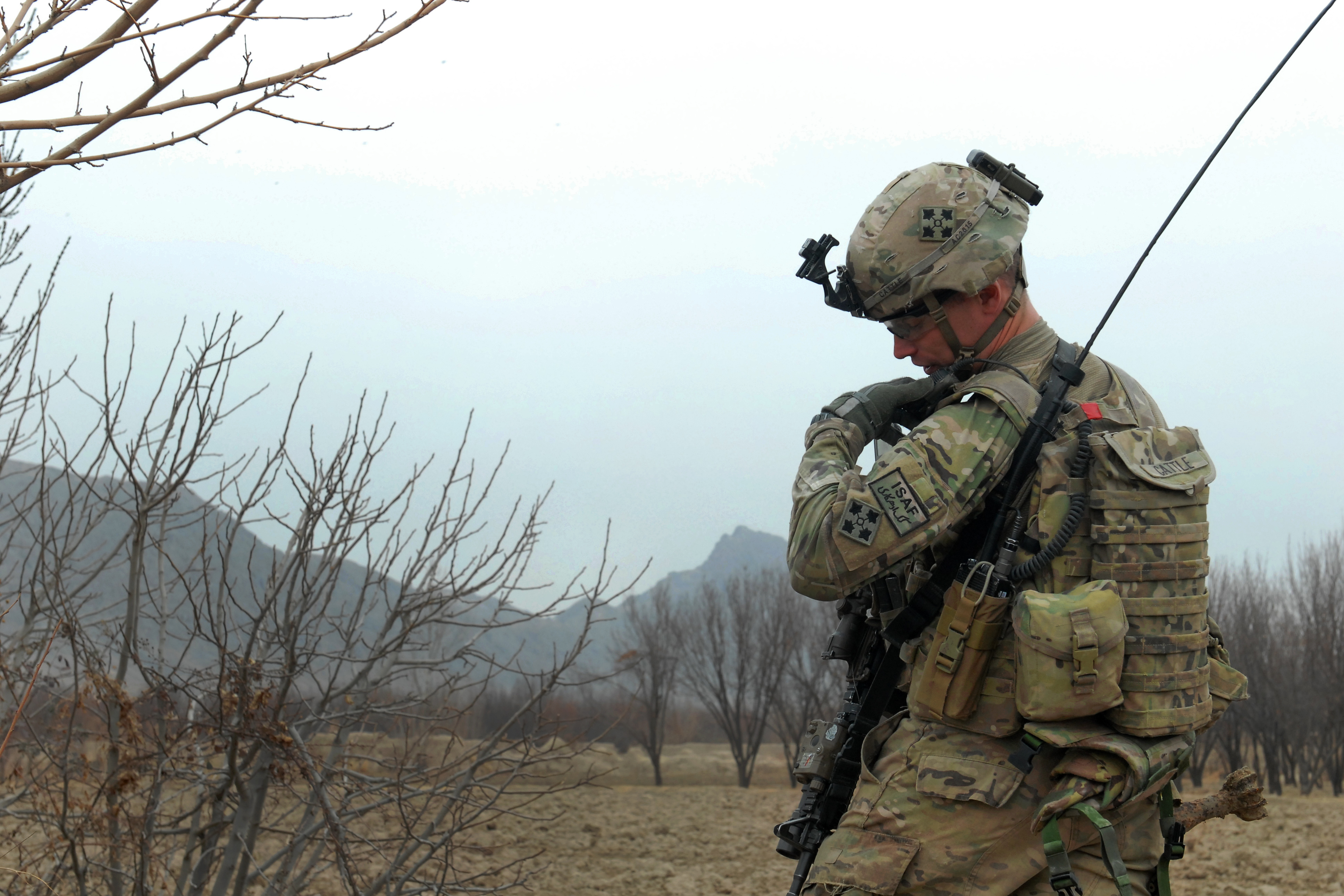 U.S. Army 1st Lt. Austin Cattle calls in a situation report to his commander during a joint clearance operation with Afghan police in western Kandahar, Afghanistan, Feb. 1, 2012. Cattle is assigned to the 4th Infantry Division's Company B, 1st Battalion, 67th Armor Regiment, 2nd Brigade Combat Team.